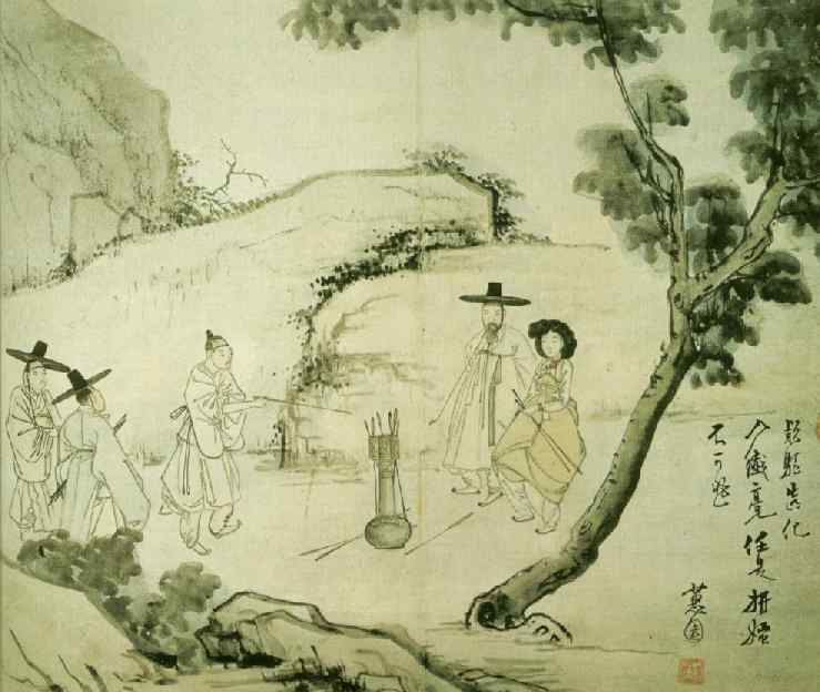 "Playing a tuho game under the forest" (transliteration: Imha tuho) from Hyewon pungsokdo by 19th-century Korean painter, Hyewon. Original stored at Gansong Art Museum in Seoul, South Korea